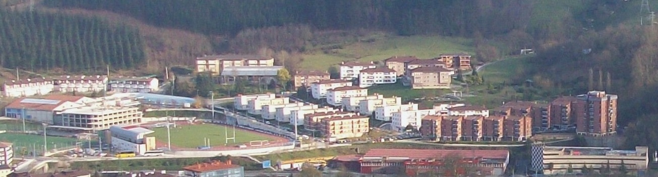 Altamira, Ordizia, Basque Country